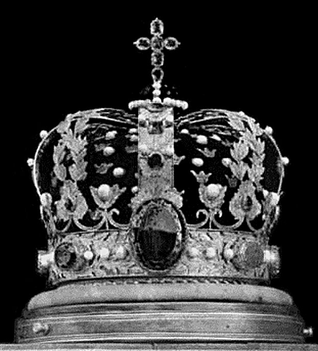 The Norwegian King's Crown made for Carl Johan, King of Norway and Sweden, in 1818 for his coronation in Nidaros Cathedral in Trondheim. photo from 1881.